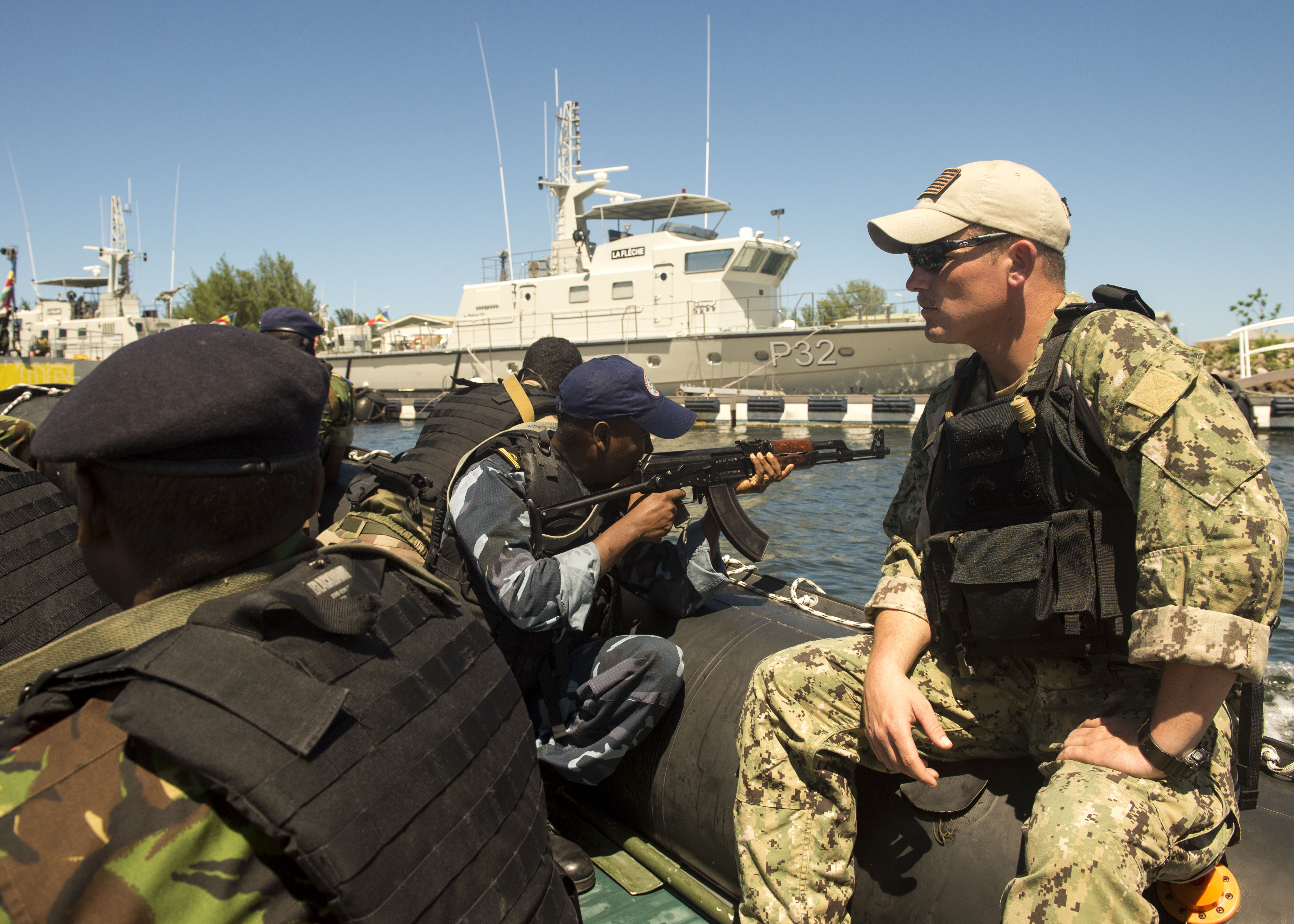 Petty Officer 2nd Class John A. Wilcox, U.S. Navy maritime interdiction operations (MIO) expert, and boarding team members from the East African Standby Force (EASF) are conducting a drill that will help participating forces combat illegal fishing during the preparatory phase of Cutlass Express 2013 on a Seychelles Coast Guard base. Exercise Cutlass Express 2013 is a multi-national maritime exercise in the waters off East Africa to improve cooperation, tactical expertise and information sharing among East African maritime forces in order to increase maritime safety and security in the region. (U.S. Navy photo by Mass Communication Specialist Seaman Luis R. Chavez Jr./Released)